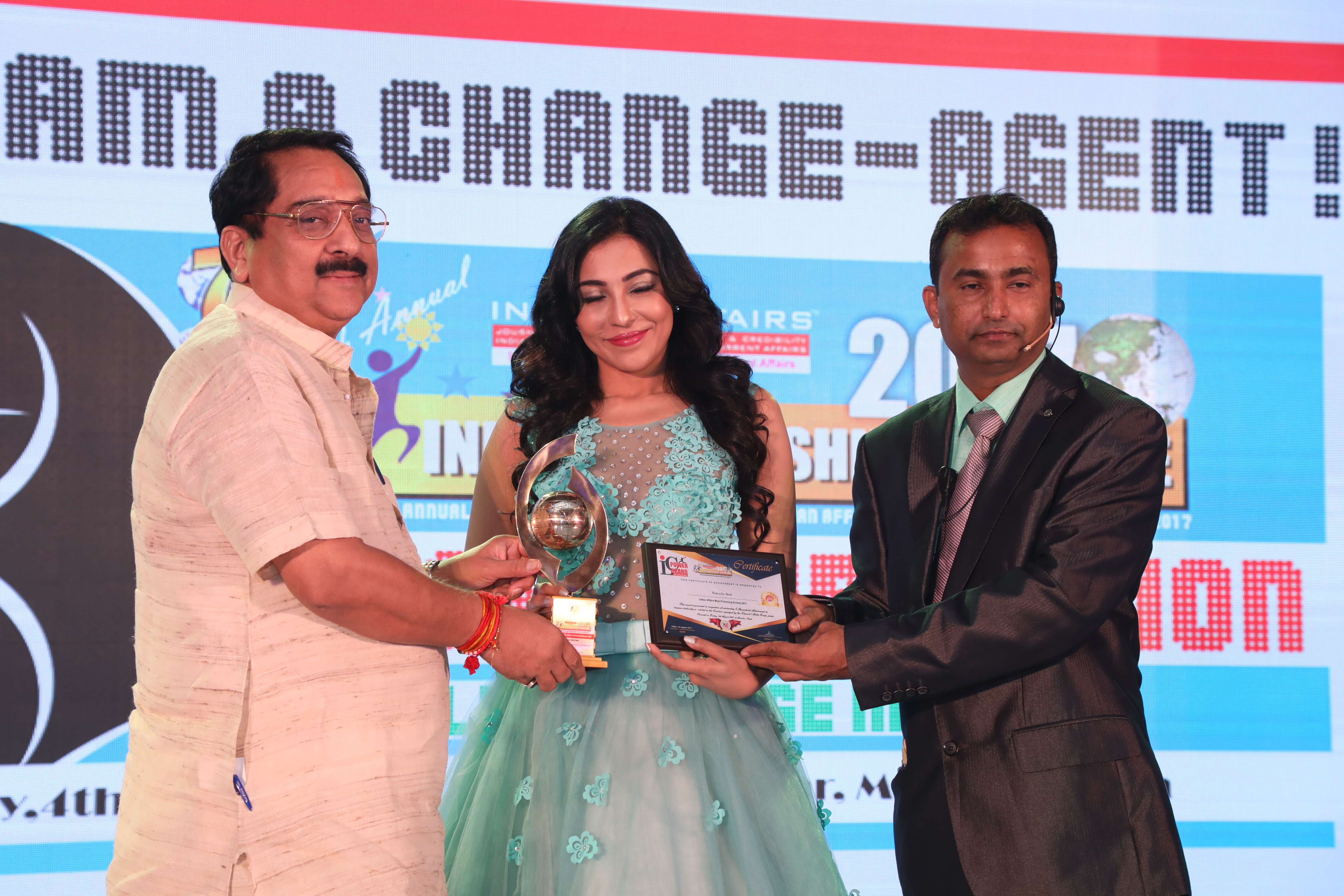 Parvathy Nair receiving the received the very coveted award in a glittering award ceremony where more than 350 leaders of the country were present at the much awaited 8th annual india leadership conclave & Indian Affairs Business Leadership Awards held recently in Mumbai on 4th August 2017 at Hotel Sahara Star.